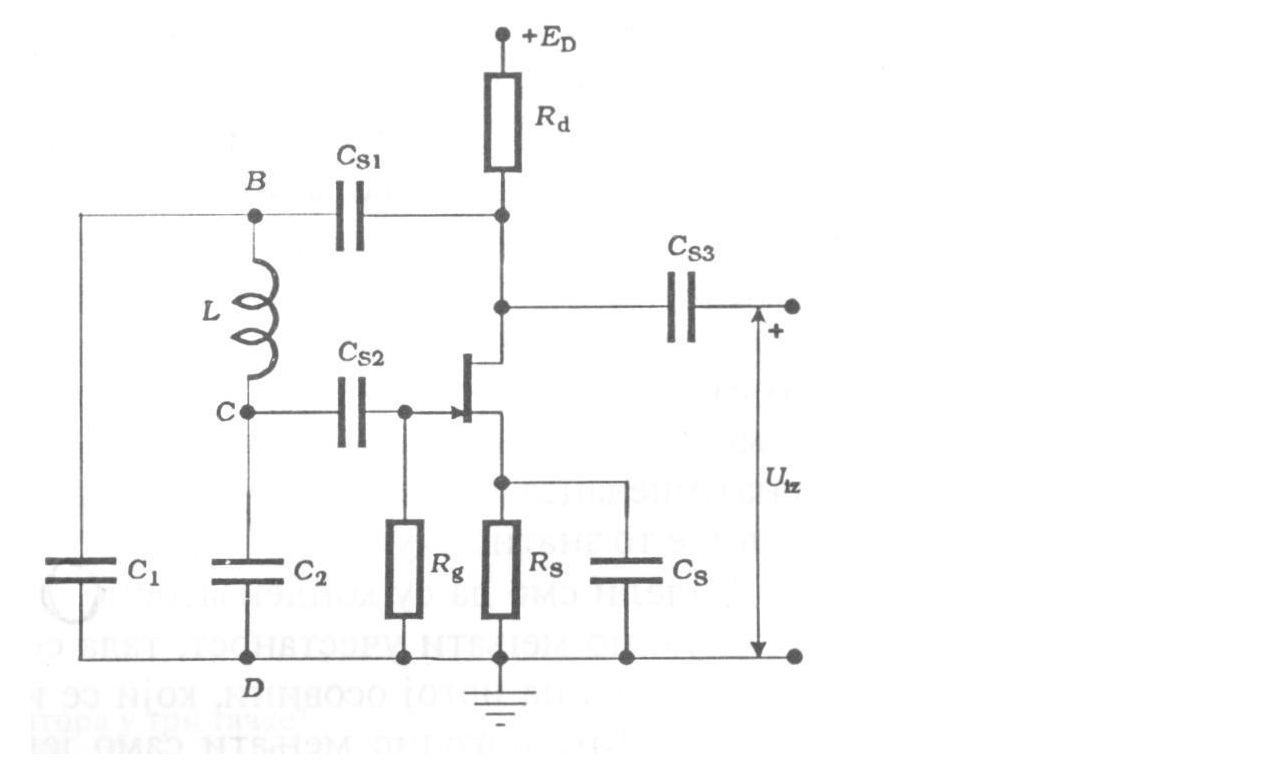 Electronic Oscilator Circuit